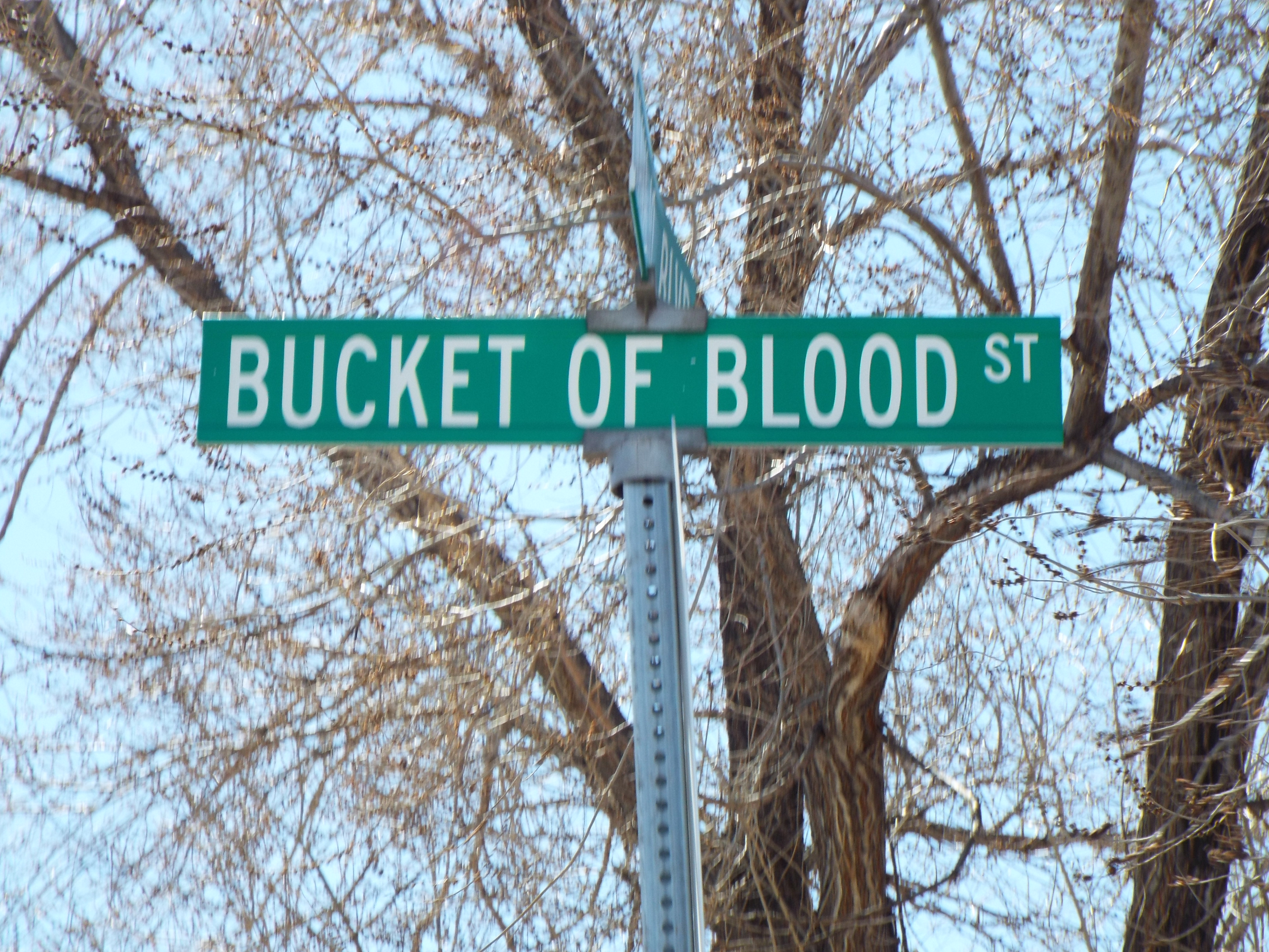 Bucket of Blood Street sign in Holbrook, AZ